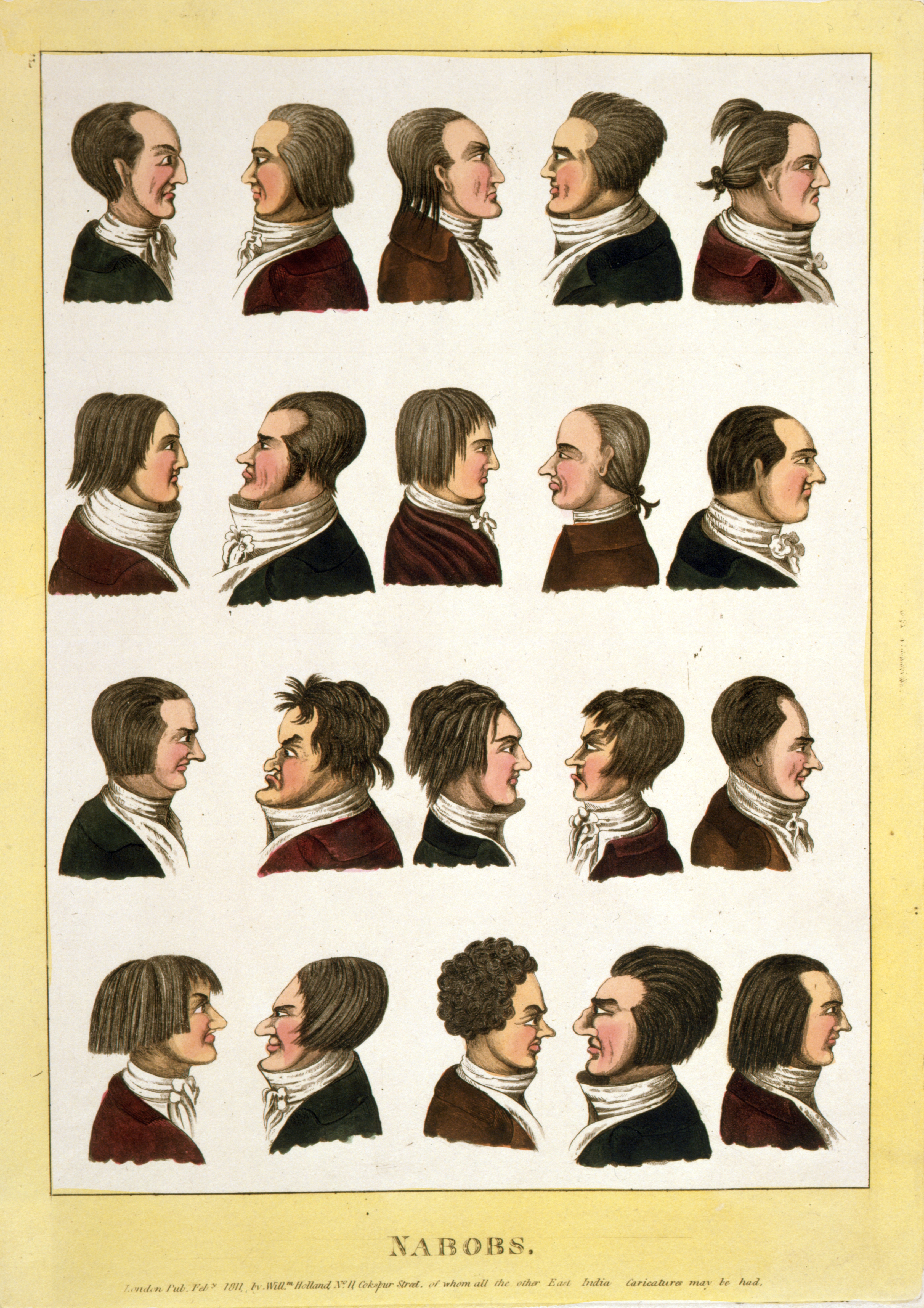 Caricatures of Nabobs